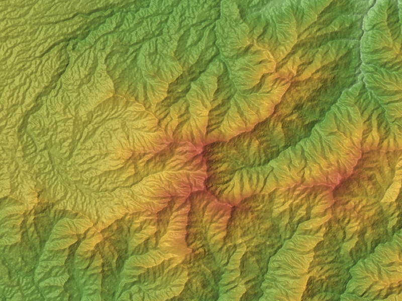 Around Mount Sobo in the border between Oita and Miyazaki prefectures, Kyushu, Japan.